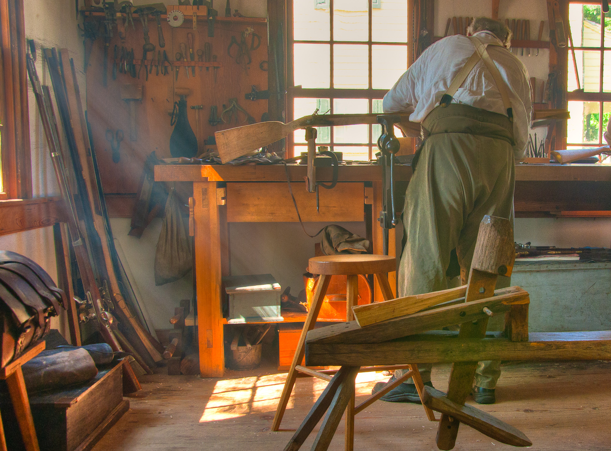 Gunsmith at Old Salem